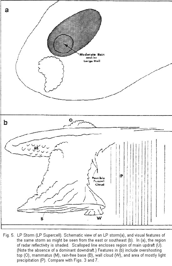 An idealized schematic of a low-precipitation (LP) supercell thunderstorm.